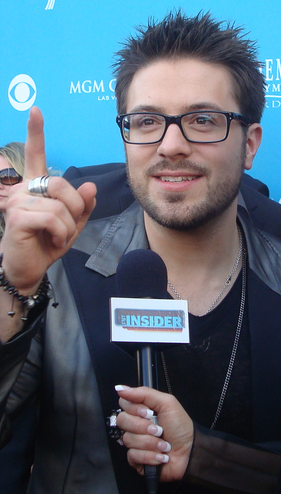 Danny Gokey at the 45th Annual Academy of Country Music Awards.